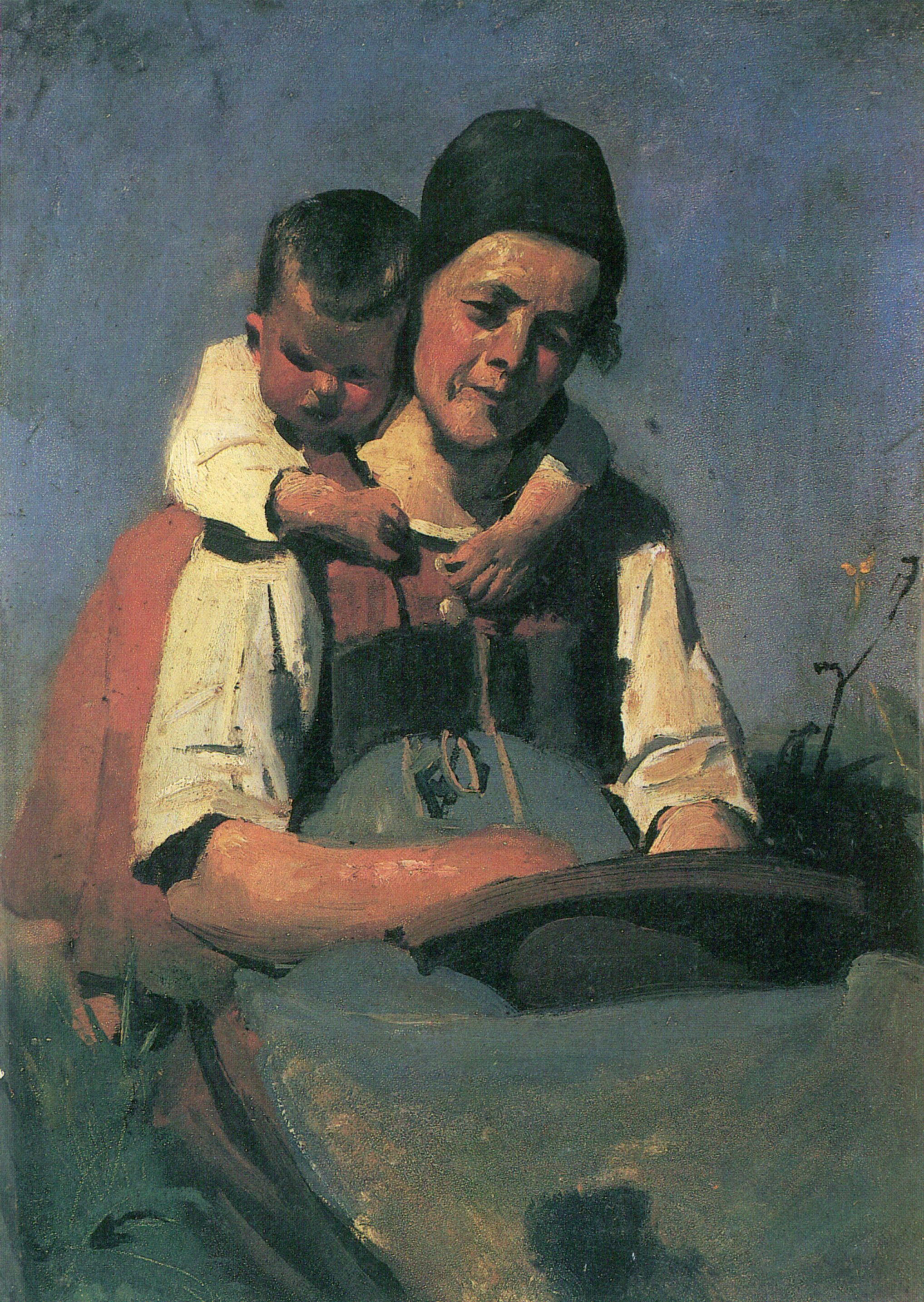 Countrywoman with Child.